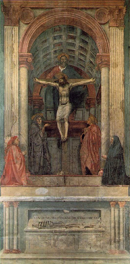 The "Trinity" was one of the first painting to show a greater understanding of one point perspective in an interior space. The barrel vault shows the grandeur of Rome. Figures shown are Mary, Saint John and the petitioners on the lower step.